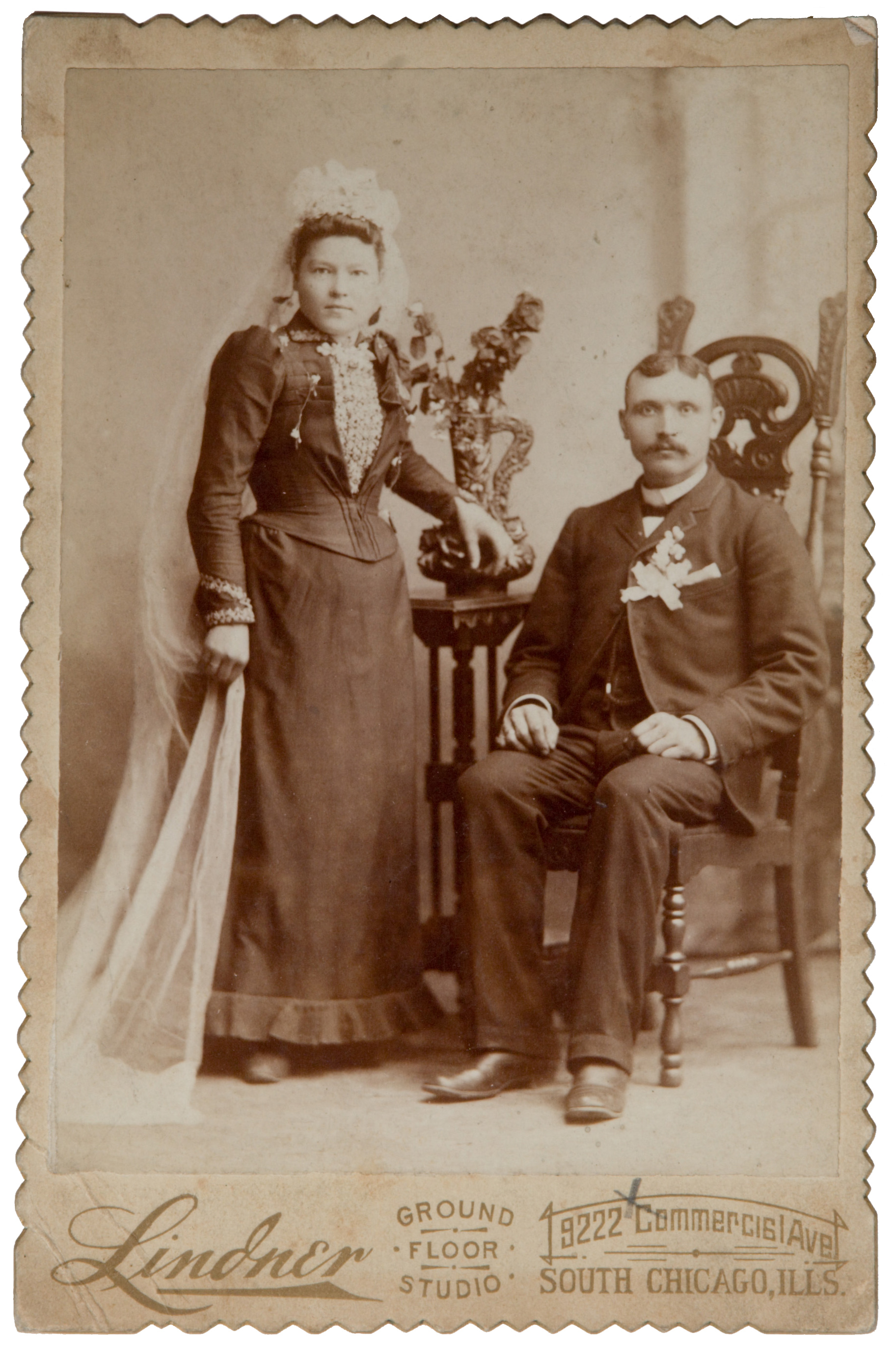 Bride in a dark colored wedding dress. Photographer - Lindner: Chicago, Ill. Date - Late 19th century